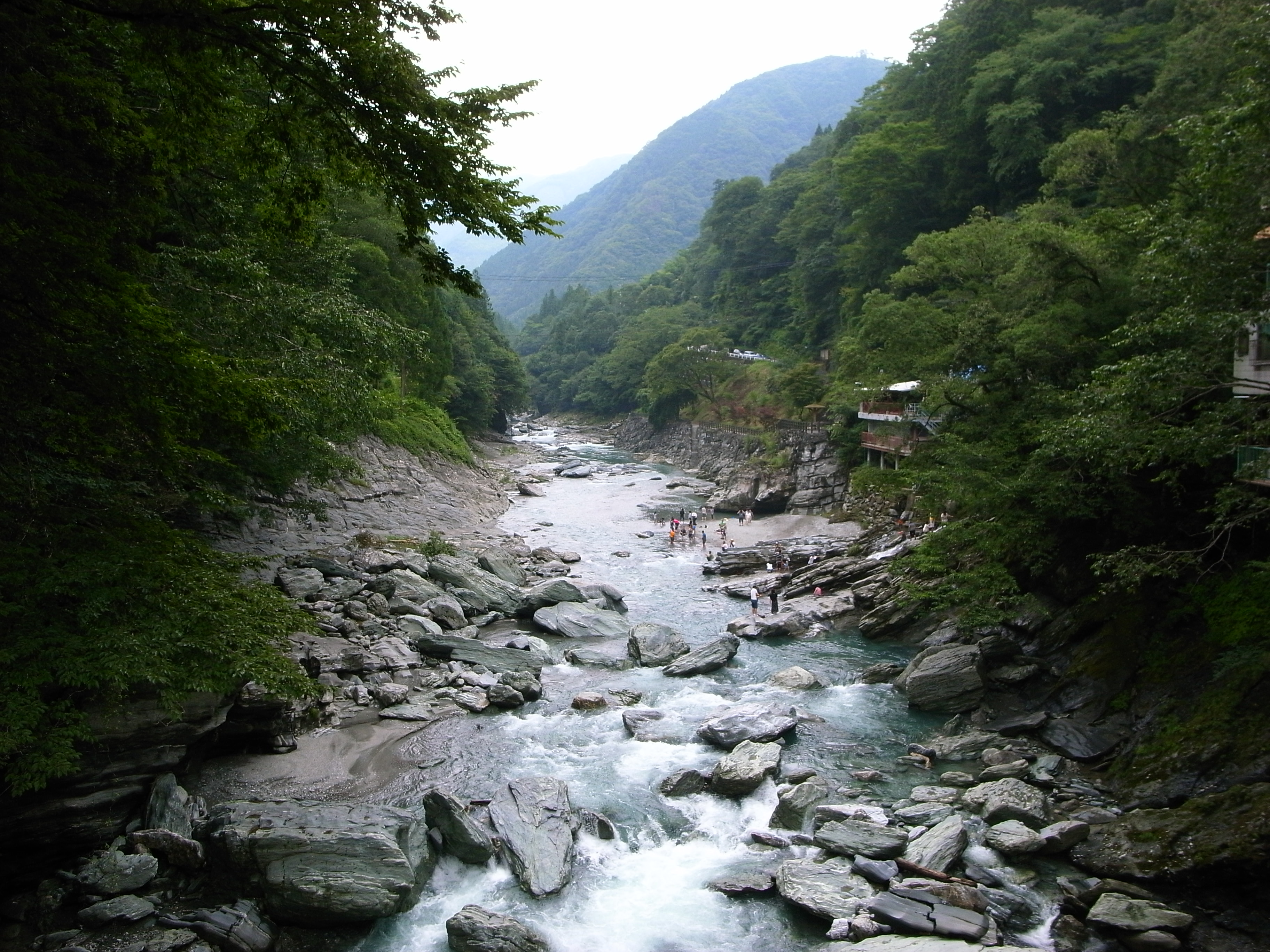 Iya Valley. Ricoh GR Digital II